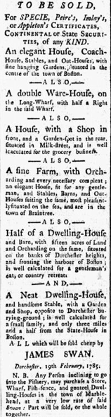 Newspaper item about James Swan. From: Continental Journal (Boston, Massachusetts)